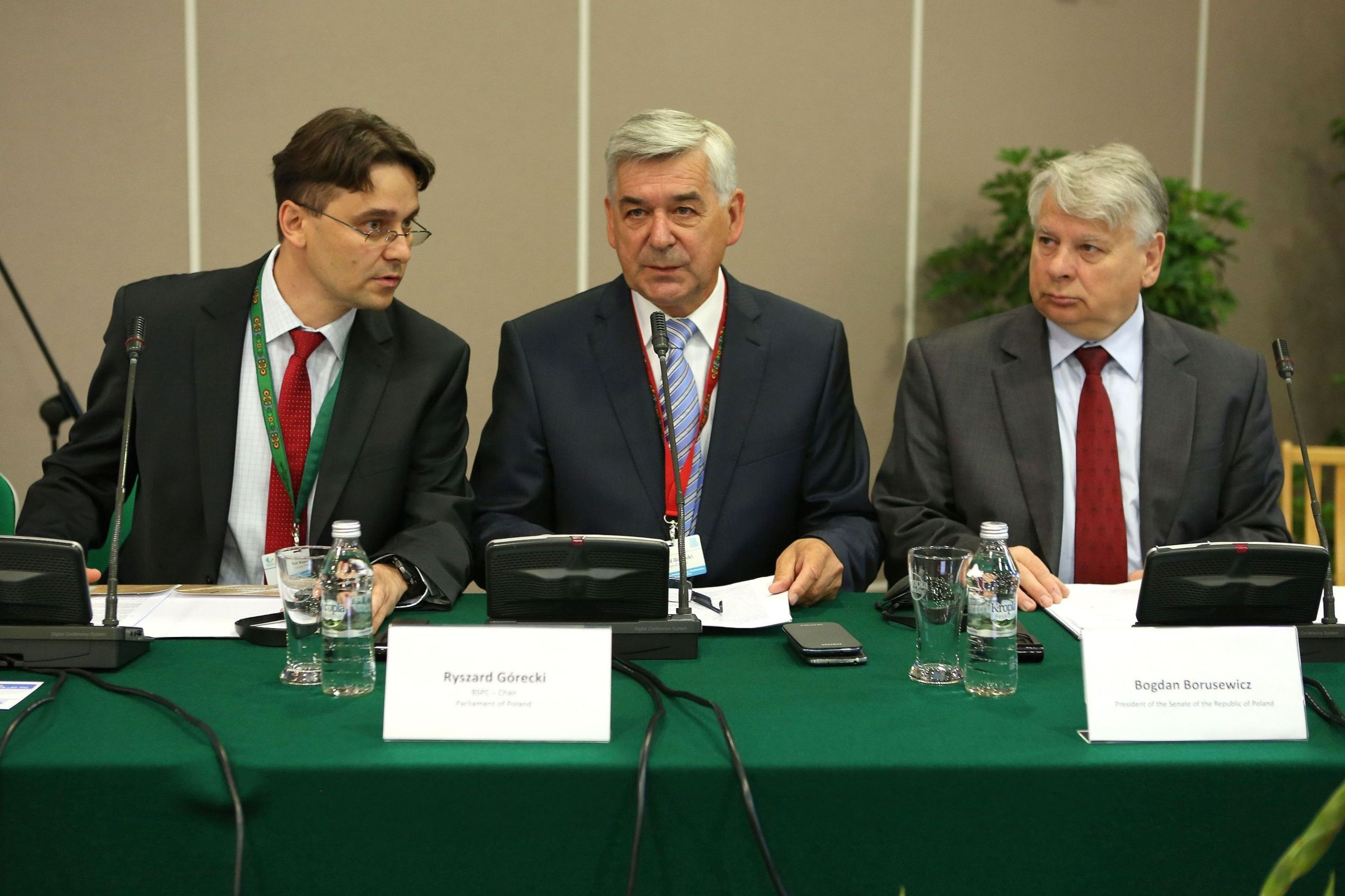 Ryszard Górecki and Bogdan Borusewicz during 23rd Baltic Sea Parliamentary Conference in Olsztyn